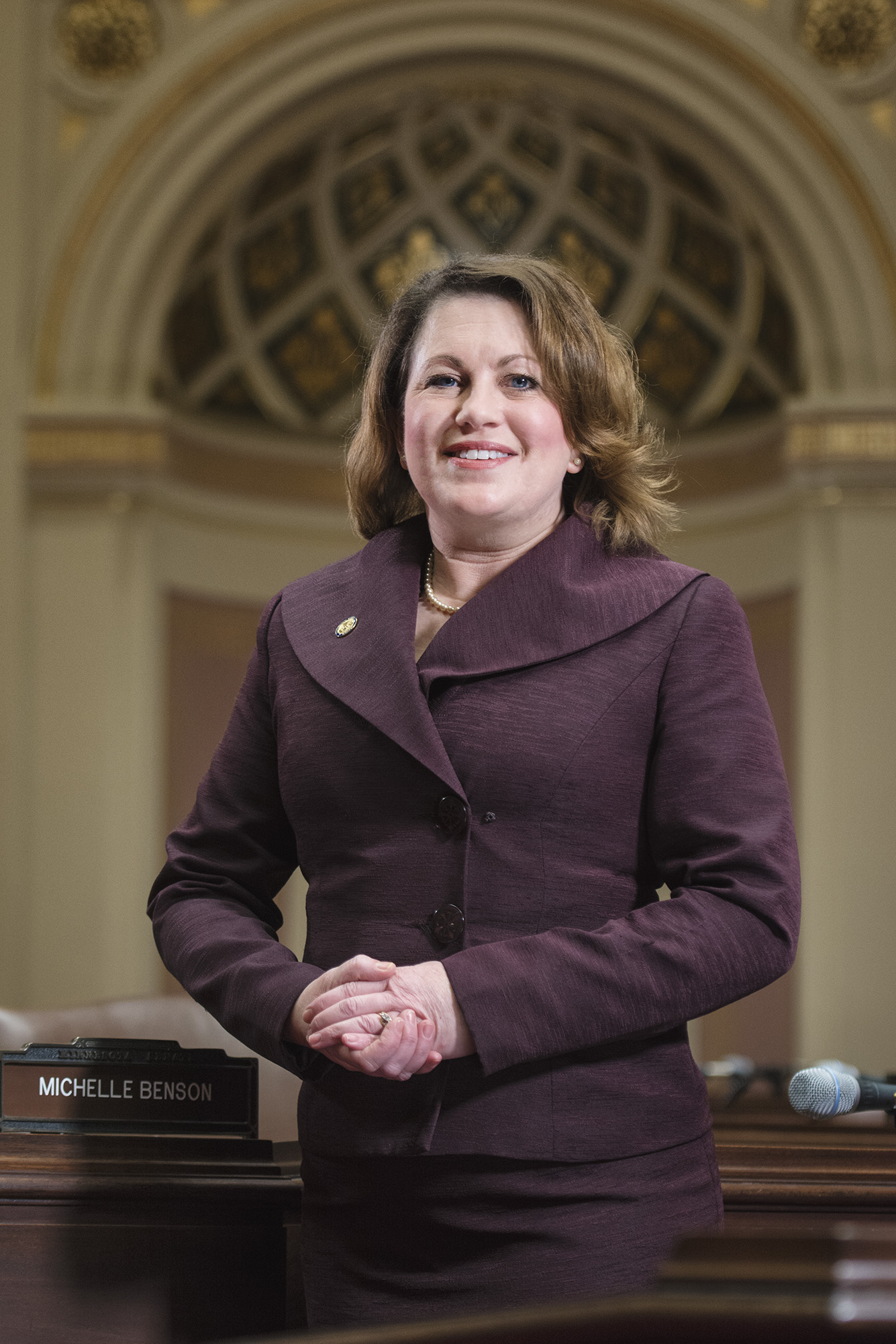 Minnesota Senate Deputy Majority Leader Michelle Benson (R-Ham Lake)